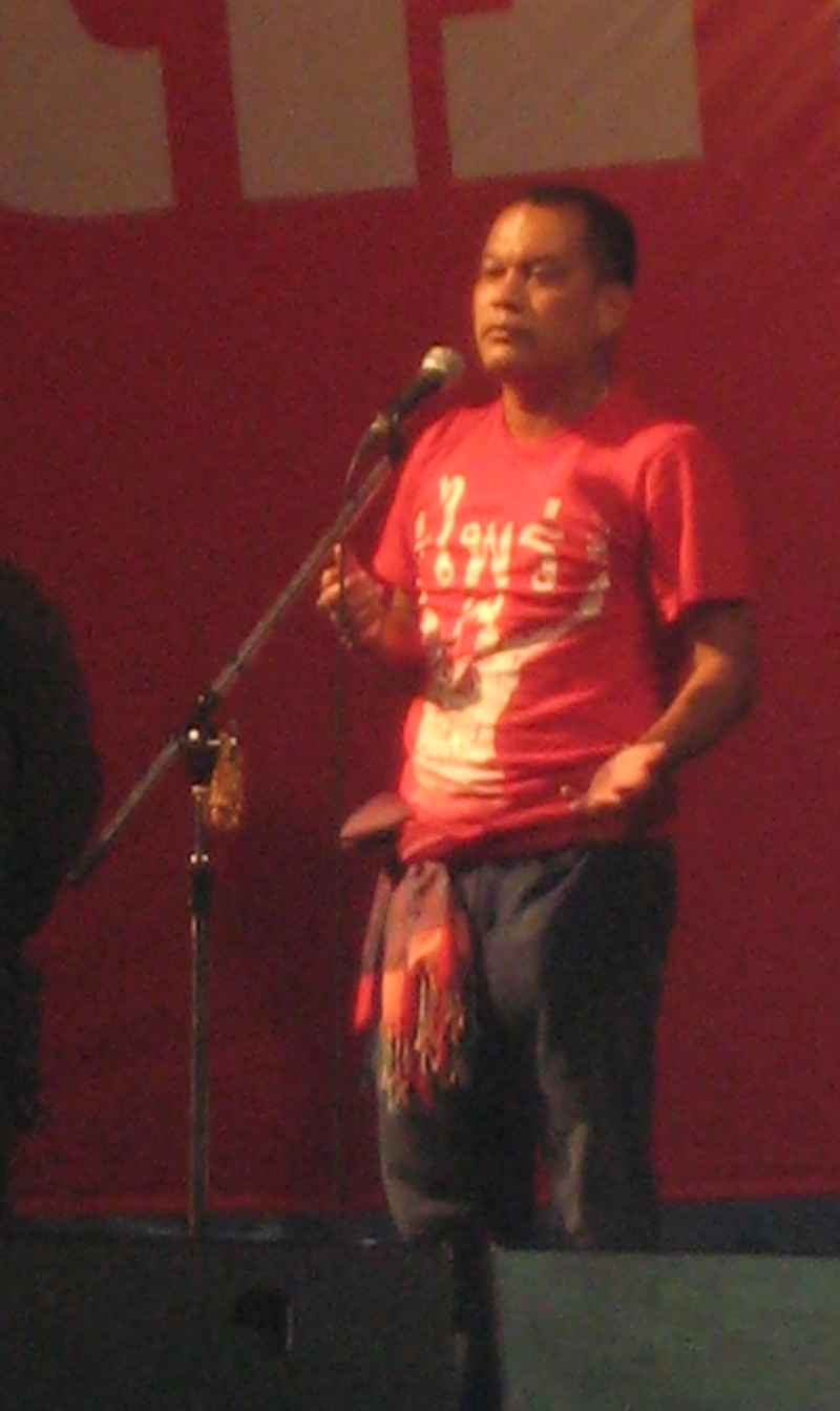 Nattawut Sai-kua at Ratchaprasong Intersection